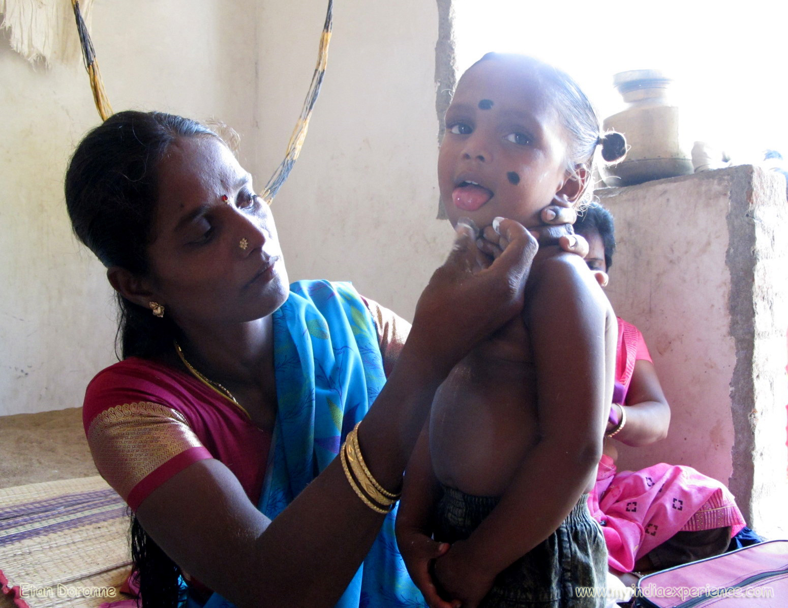 Khol Kajal kanmashi kan mai eyeliner infants evil eye Buri nazar drishti bommai काजल கண் மை surma Tamil Nadu village India Documentary Featur story jpg photo by Etan Doronne It's a boy ! despite the 'piggy tails' and makeup. Indian mothers place these evil-eye protecting dots on their little children. Which I found makes them more pretty then handsome.